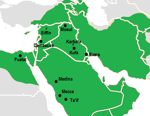 Borders and background from File:Map of expansion of Caliphate.svg. Locations and labels based on: Donner, Fred M. (2010). Muhammad and the Believers, at the Origins of Islam. Cambridge, Massachusetts: Harvard University Press. p. 156. ISBN 978-0-674-05097-6